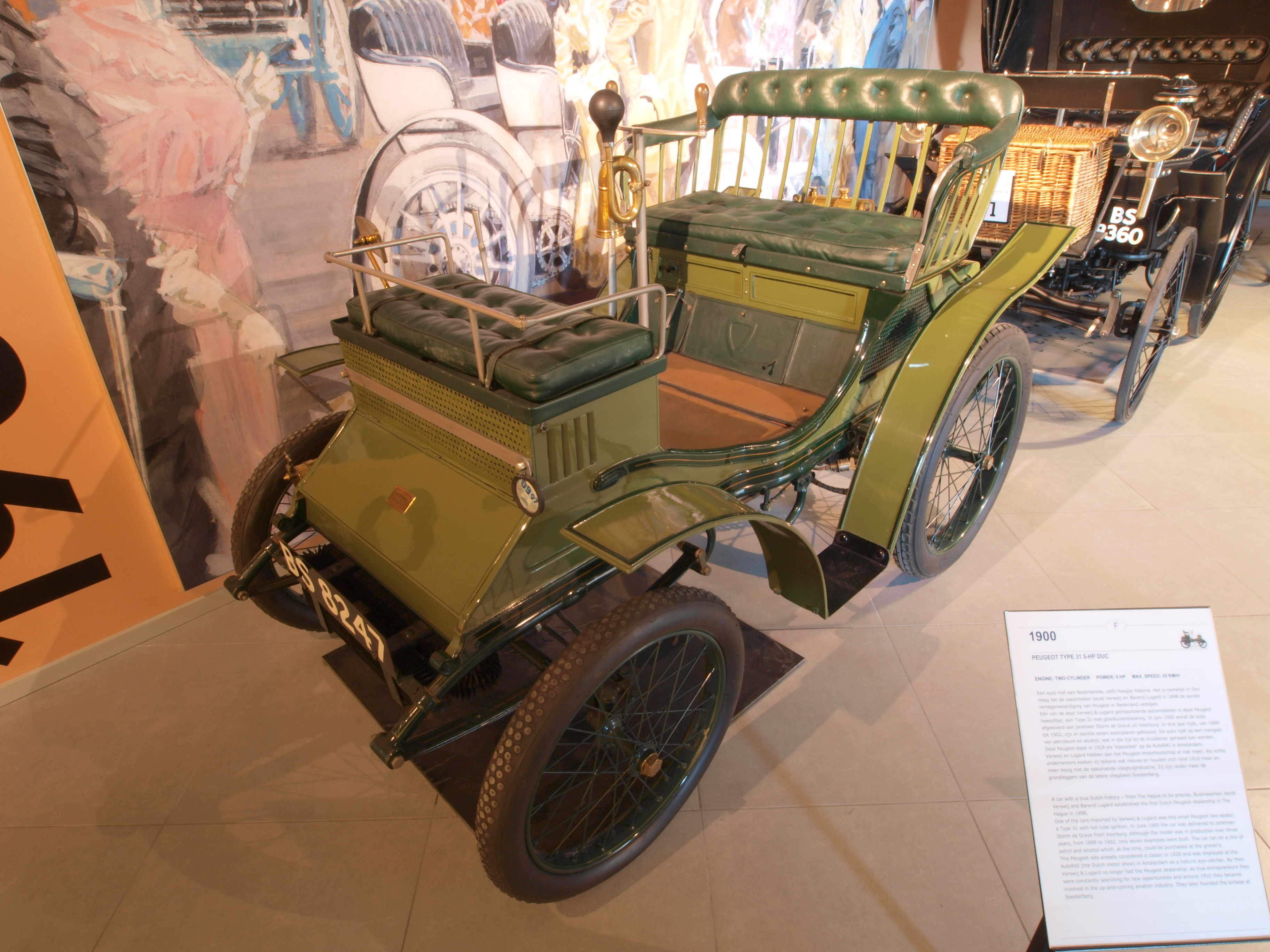 Photographed at the Louwman museum, The Netherlands.